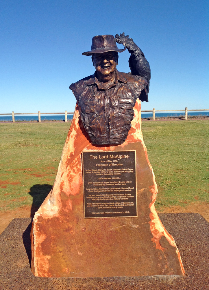 Sculpture by Linda Klarfeld: Alistair, Lord McAlpine – Cable Beach, Broome